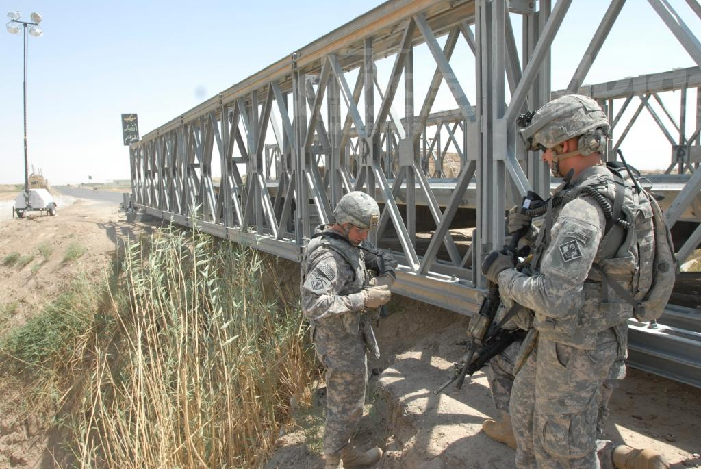 The leadership of 7th Engineer Battalion, 4th Brigade Combat Team, 1st Armored Division, inspects a logistic support bridge construction site on Route Arnhem in Iraq in 2009